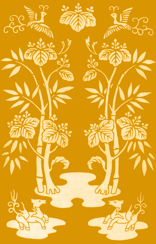 Yellow Kiri-Take-Hoo-Kirin-mon (design of paulownia, bamboo, phoenix and kirin)